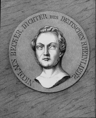 Nikolaus Becker (1809–1845) – the German lawyer and writer (of the "Rhine song")